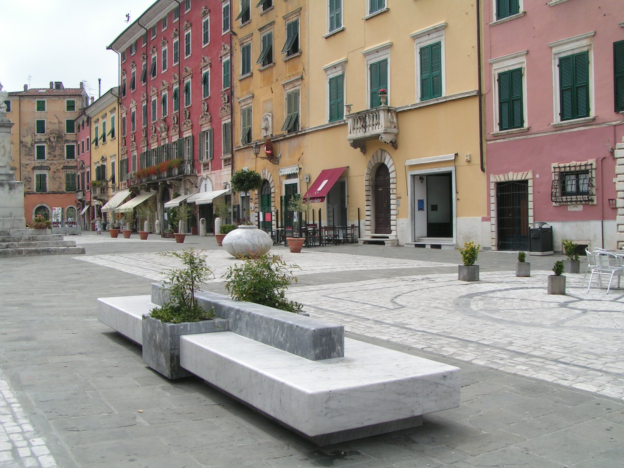 Marble benches and "tree vases" at Piazza Alberica in Carrara